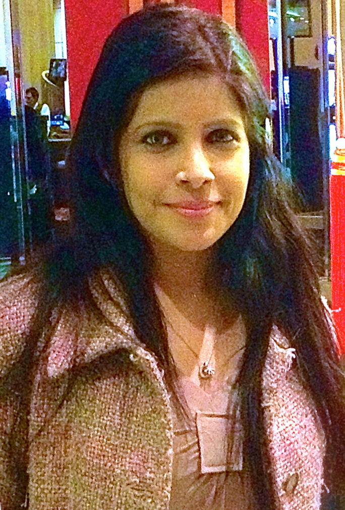 Picture of the Beautiful Srilankan Actress Thesara Jayawardane